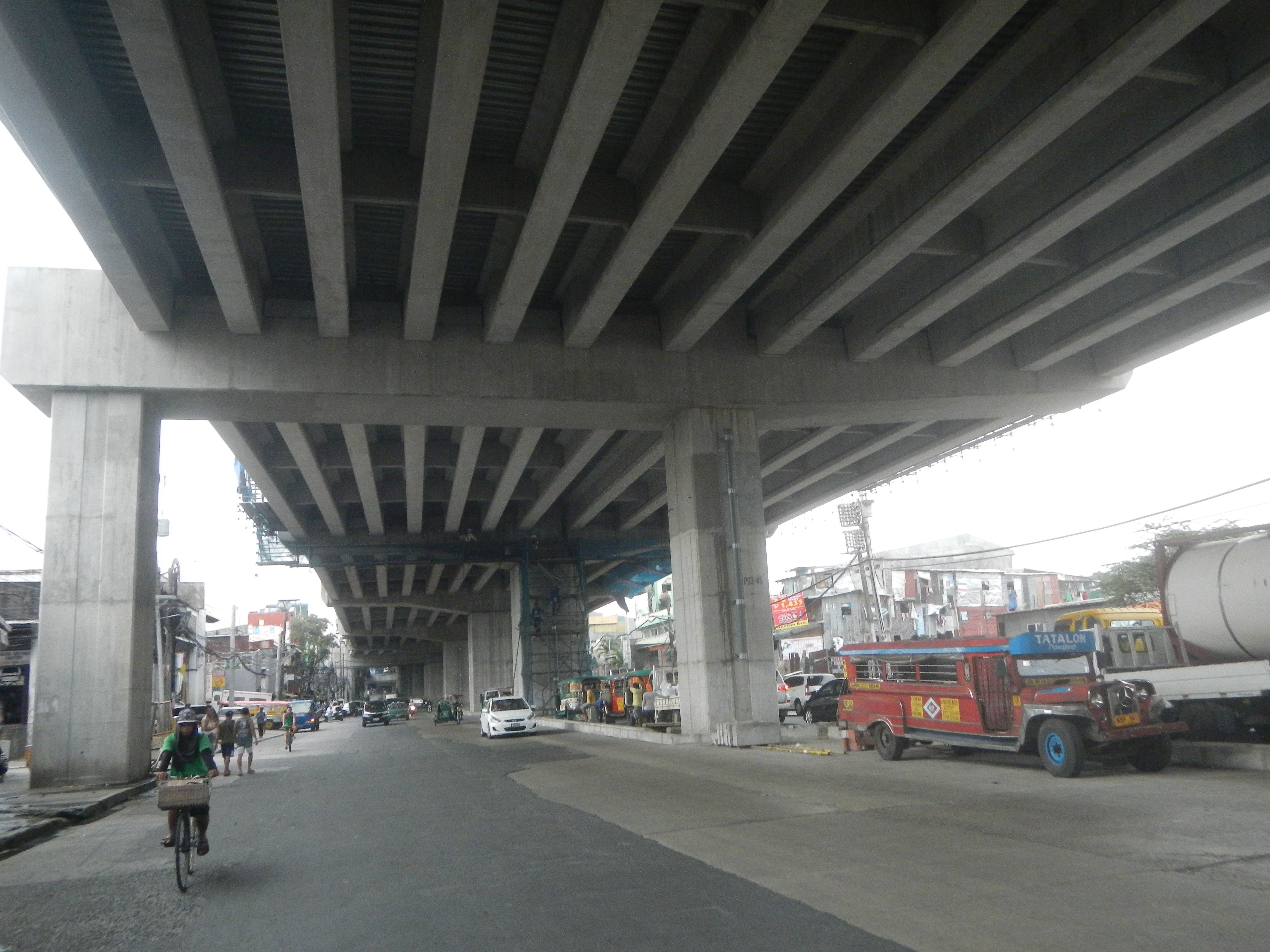 Cloudy skies due to monsoon and Tropical Depression Marilyn in Metro Manila Skyway Stage 3 Project Section 1 (Gregorio Araneta Avenue corners Banaue Street, Quezon Avenue & E. Rodriguez Sr. Avenue - Manresa, Talayan, Santo Domingo & Tatalon, SFDM) Gregorio Araneta Avenue Gregorio Araneta Avenue Extension Quezon Avenue to E. Rodriguez Sr. Avenue (C-5) 14°37'18"N 121°1'29"E Tropical Depression Marilyn Tropical Depression Marilyn Cloudy skies Metro Manila Skyway Stage 3 Skyway 3 interconnecting with North Luzon Expressway Segment 10.1 (Harbor Link, Phase II Manila, Caloocan City) constructions interconnecting with Circumferential Road 3 (Caloocan City section) Circumferential Road 3 Sgt. Rivera Avenue Skyway Stage 3 to partially open September, 2019 Skyway Stage 3 is an 18.68-kilometer elevated expressway stretched over Metro Manila from Gil Puyat or Buendia in Makati City to Balintawak, Caloocan and Quezon City; List of barangays of Metro Manila, Legislative districts of Quezon City Districts 4, Barangays of Quezon City, Manresa 14.6411, 120.9974 Talayan 14.6344, 121.0081 Santo Domingo 14.6295, 121.0044 and Tatalon 14.6234, 121.0108 Quezon City interconnecting with C-3 Road-Sgt Rivera St. near cor A. Bonifacio Ave. (Quezon City) 14°38'38"N 120°59'39"E to Banawe Street 14°38'17"N 121°0'2"E to Terminus North Luzon Expressway, in Balintawak, Philippine highway network (Note: Judge Florentino Floro, the owner, to repeat, Donor Florentino Floro of all these photos hereby donate gratuitously, freely and unconditionally Judge Floro all these photos to and for Wikimedia Commons, exclusively, for public use of the public domain, and again without any condition whatsoever).